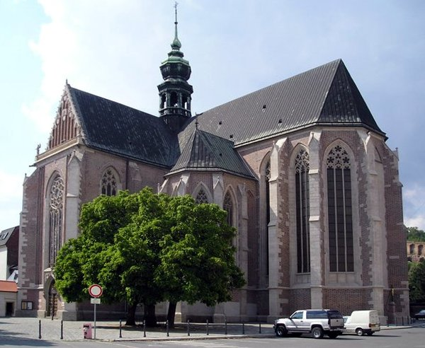 Mendlovo